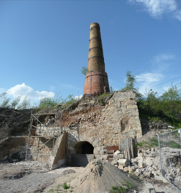 This image shows a historic lime kiln in Borna.